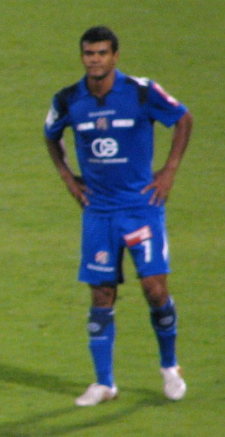 Oelilton Araujo dos Santos Etto